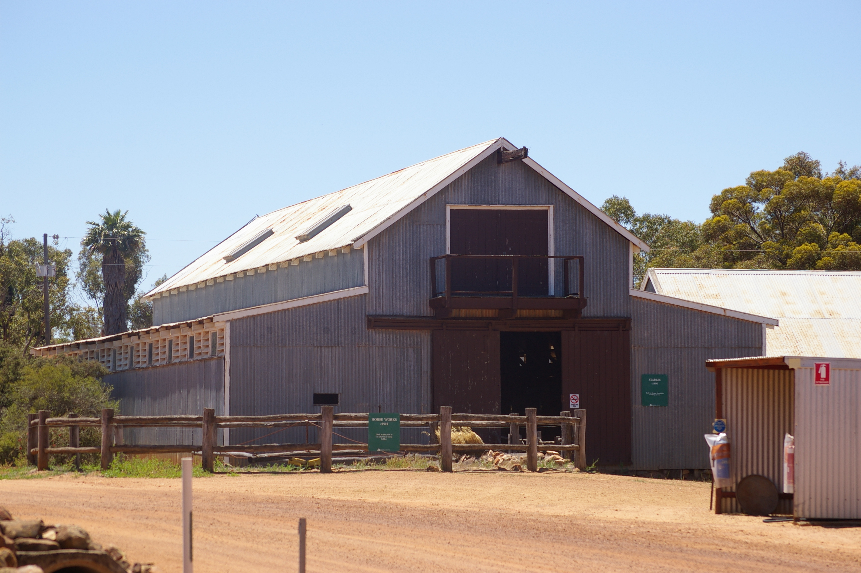 Taken on the Avondale Agricultural Reasearch Station The heritage listed stables c1890